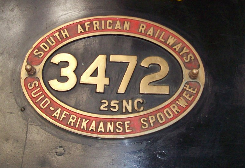 Class 25NC-3472 Number Plate.